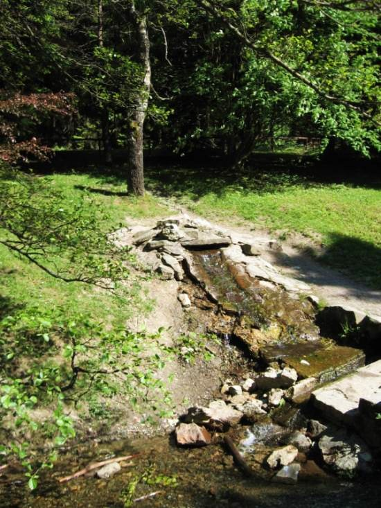 Germany / Hesse: spring of the river Diemel near Usseln